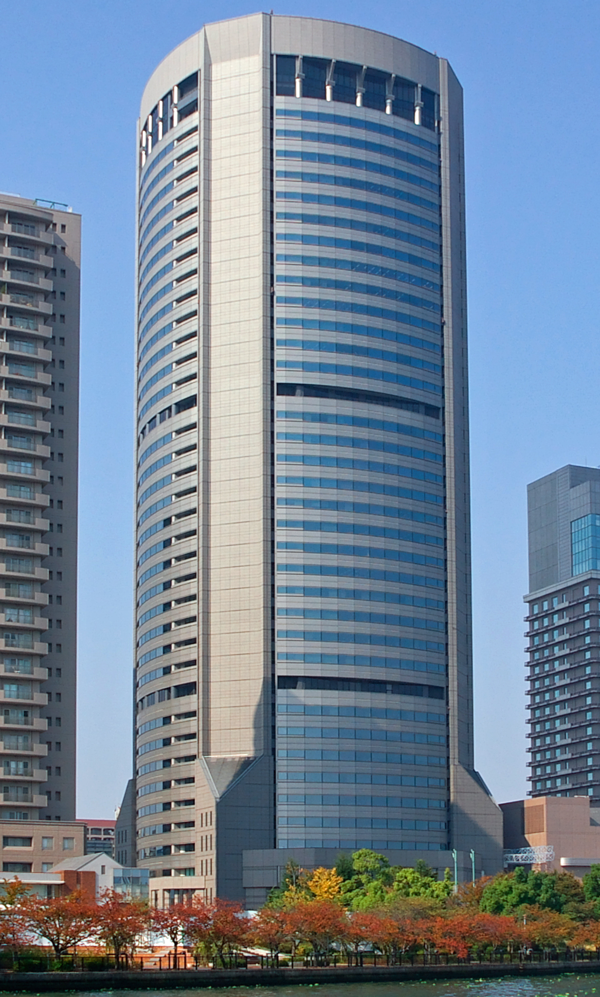 Photograph of the panoramic view of Osaka Amenity Park in Kita-ku, Osaka, Osaka Prefecture, Japan.